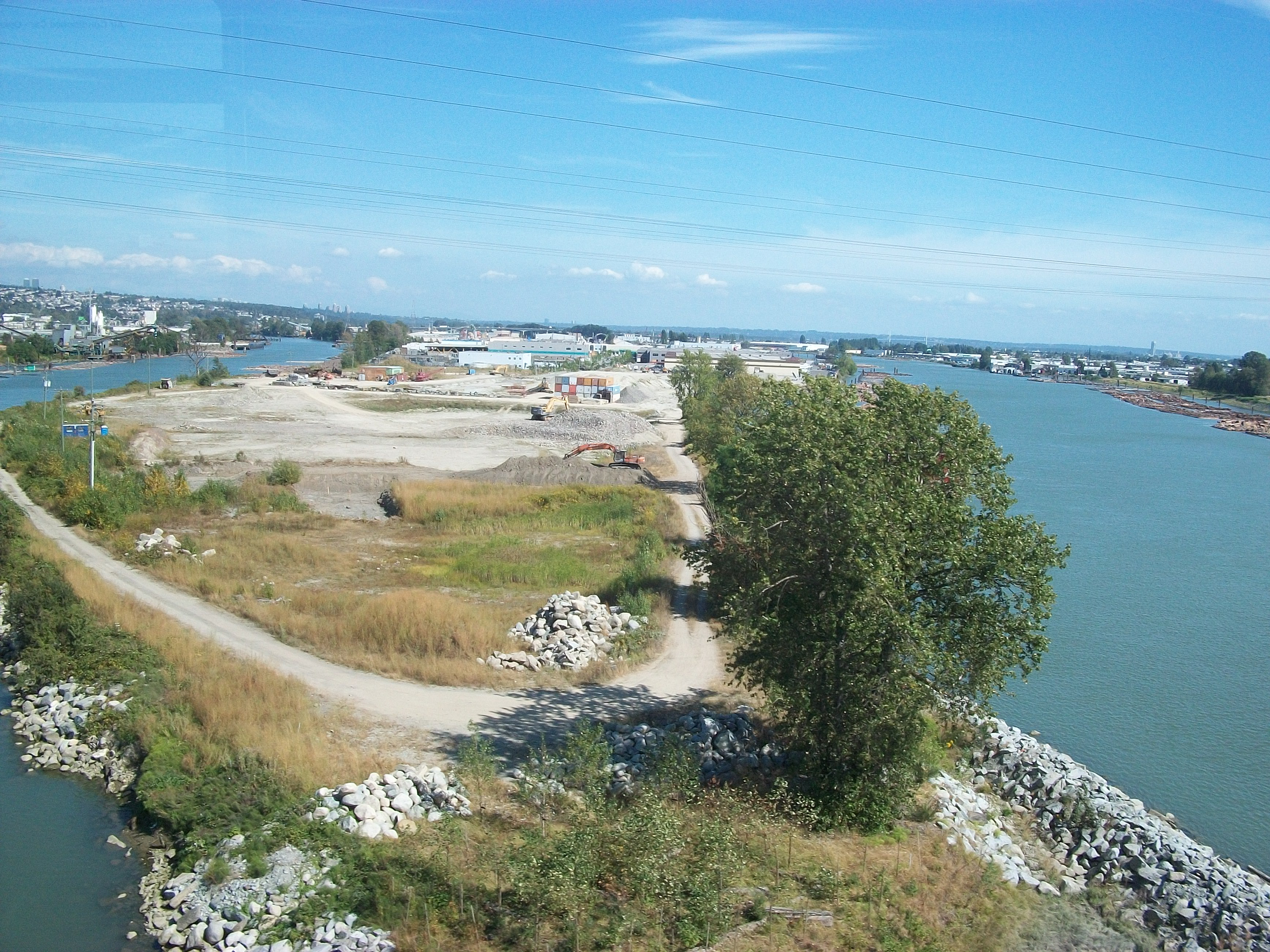 Mitchell Island in the Fraser River, as photographed from a SkyTrain traversing the North Arm Bridge